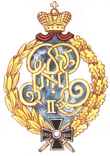 Badge of Apsheronsky 81-st Regiment